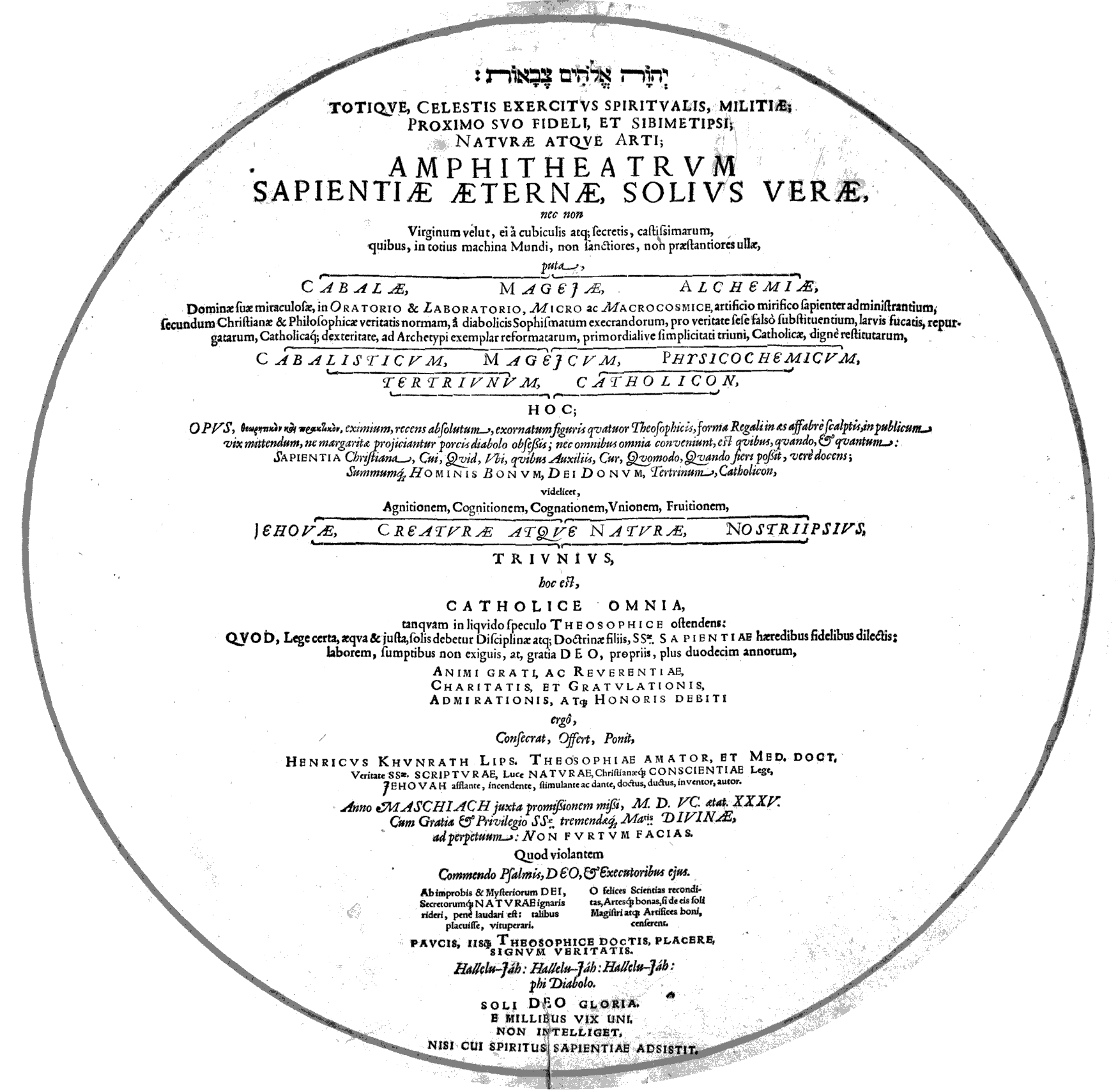 Title page of the book Amphitheatrum sapientiae aeternae